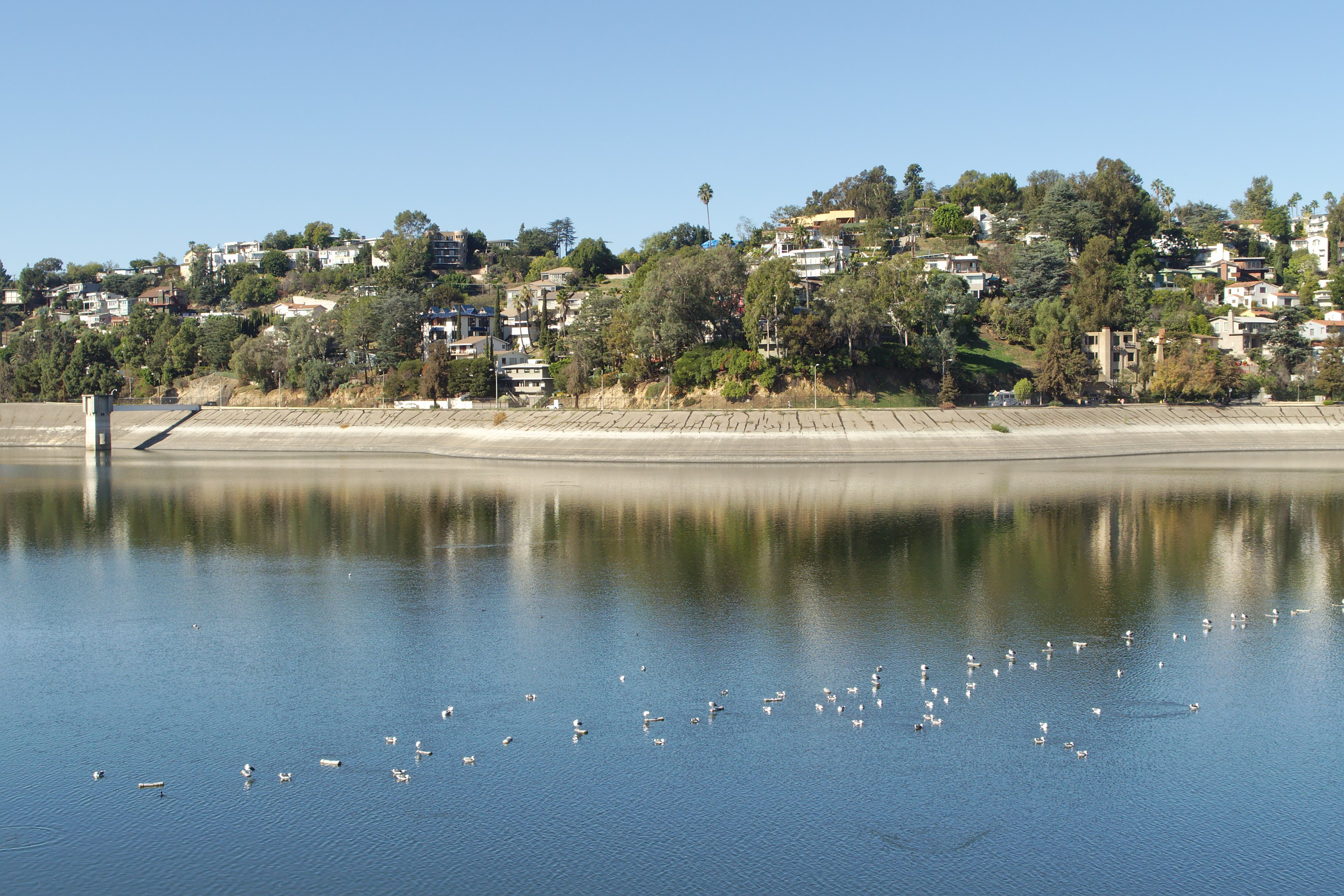 Looking west across the Silver Lake Reservoir from the eastern side.